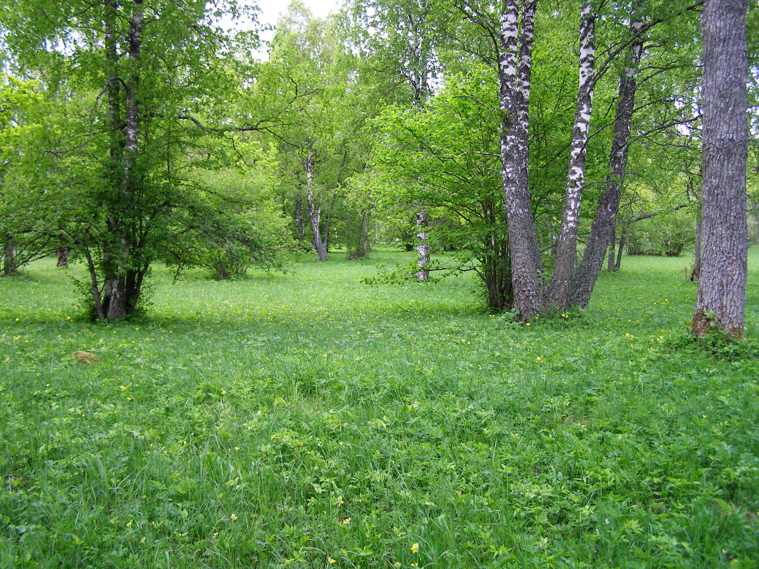 Laelatu wooded meadow, close to Virtsu, Estonia, in May 29, 2011